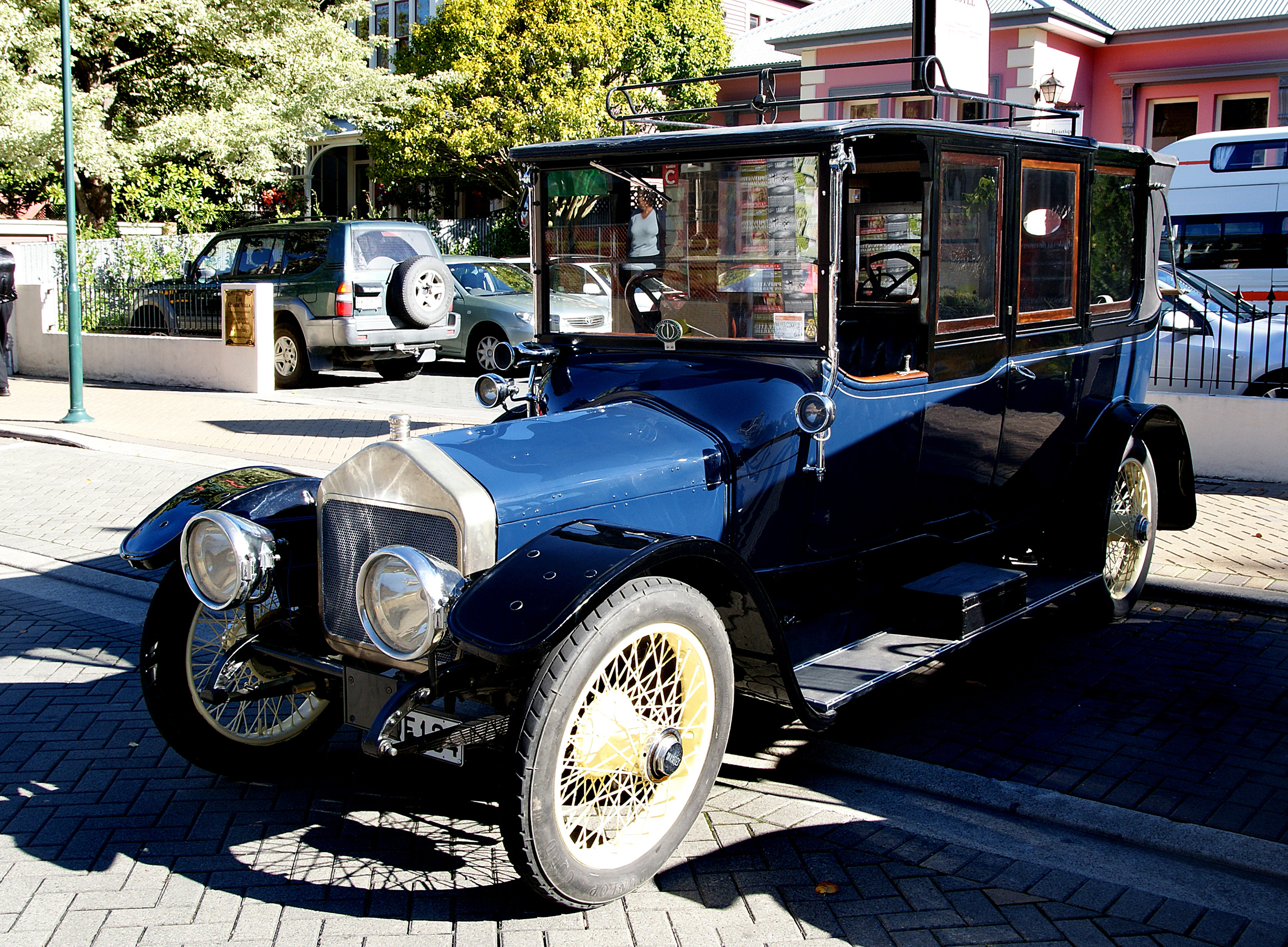 1914 Wolseley 16-20 laundauletteVintage Car Clubs show. Christchurch New Zealandbought by Sir John Roberts of Dunedin, founder of Murray Roberts, in Birmingham in 1914